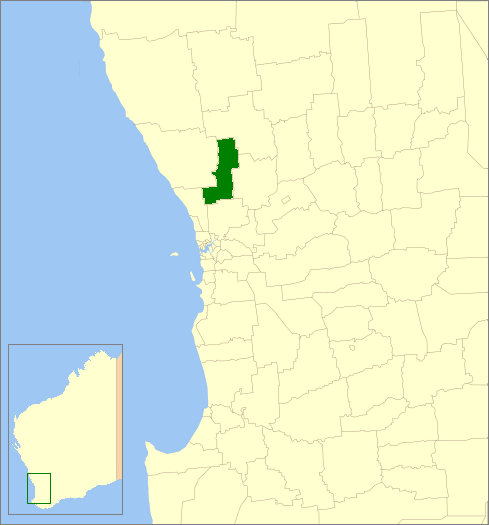 Description=Location of the Local Government Area in Western Australia